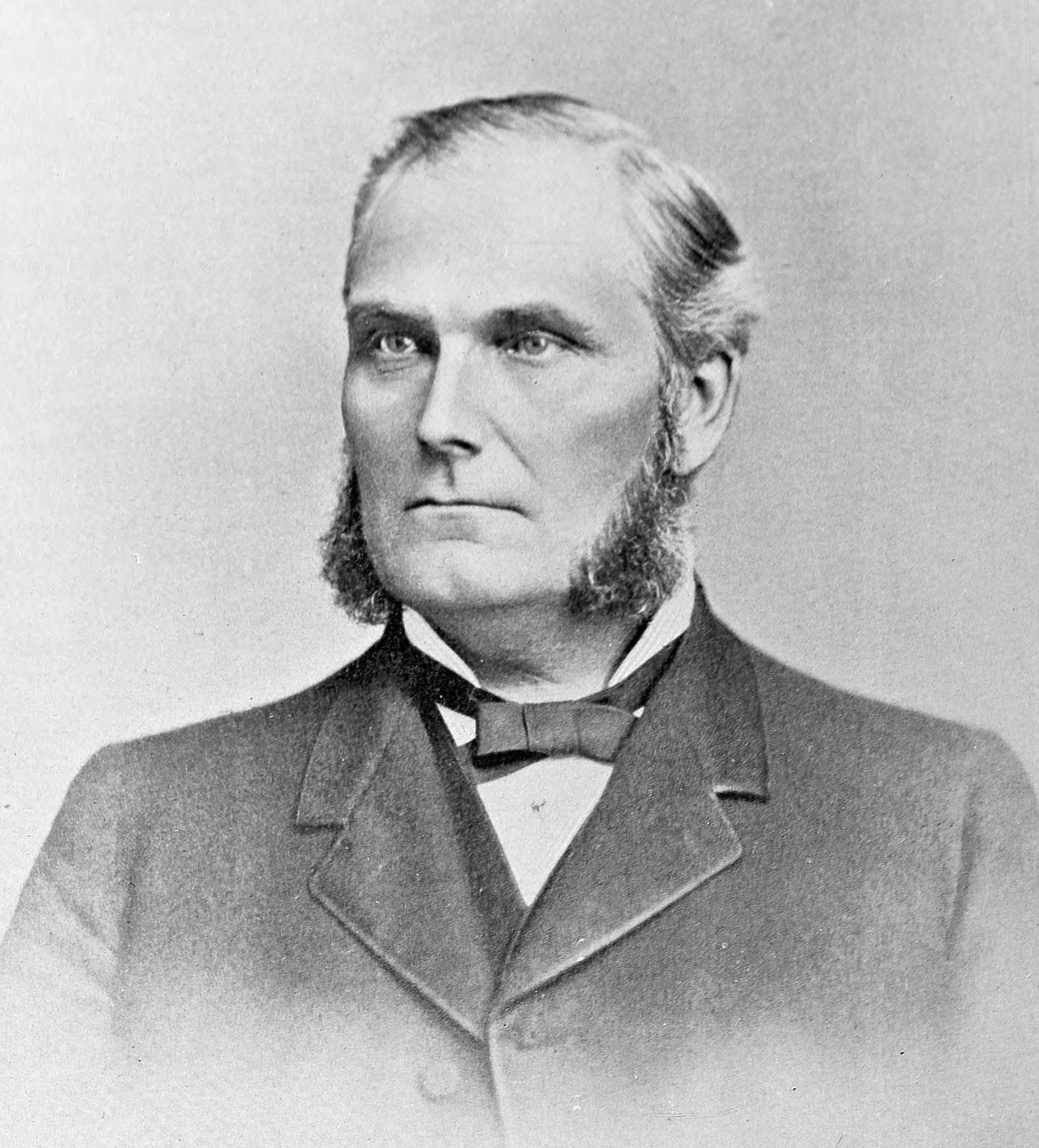 H. Henry Powers, Vermont Jurist and Legislator